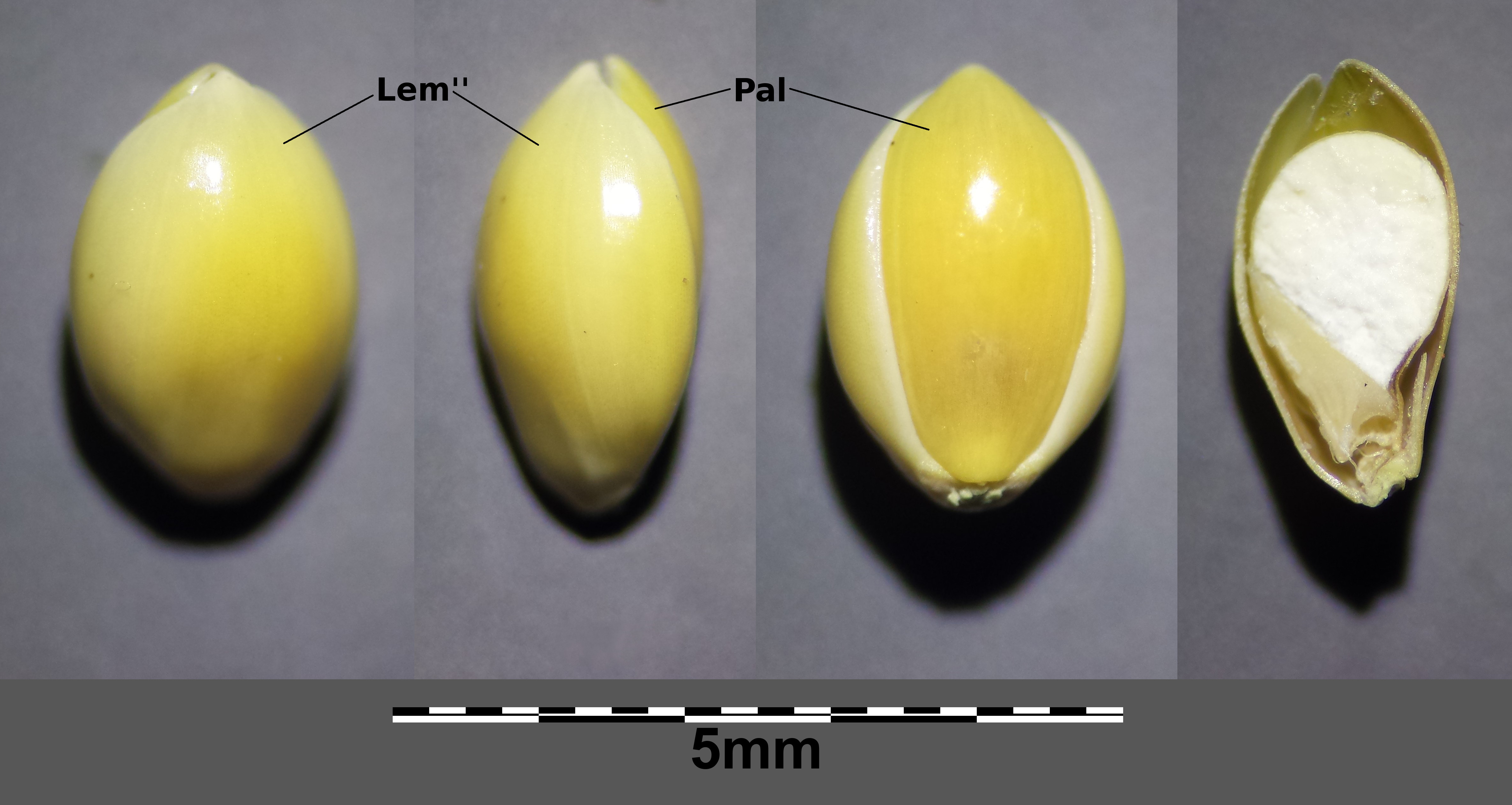 Caryopsis wrapped within lemma (Lem") and palea (Pal) Taxonym: Panicum miliaceum subsp. miliaceum ss Fischer et al. EfÖLS 2008 ISBN 978-3-85474-187-9 Location: next to Wiener Neustadt (leg. H. Rainer 2017-07-25) Habitat: field (cultivated)